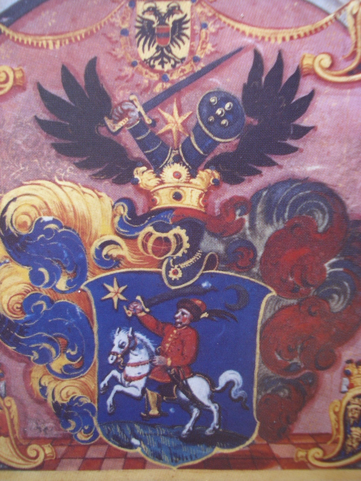 Coat of arms of the Ritter-Vitezović noble family, Croatia